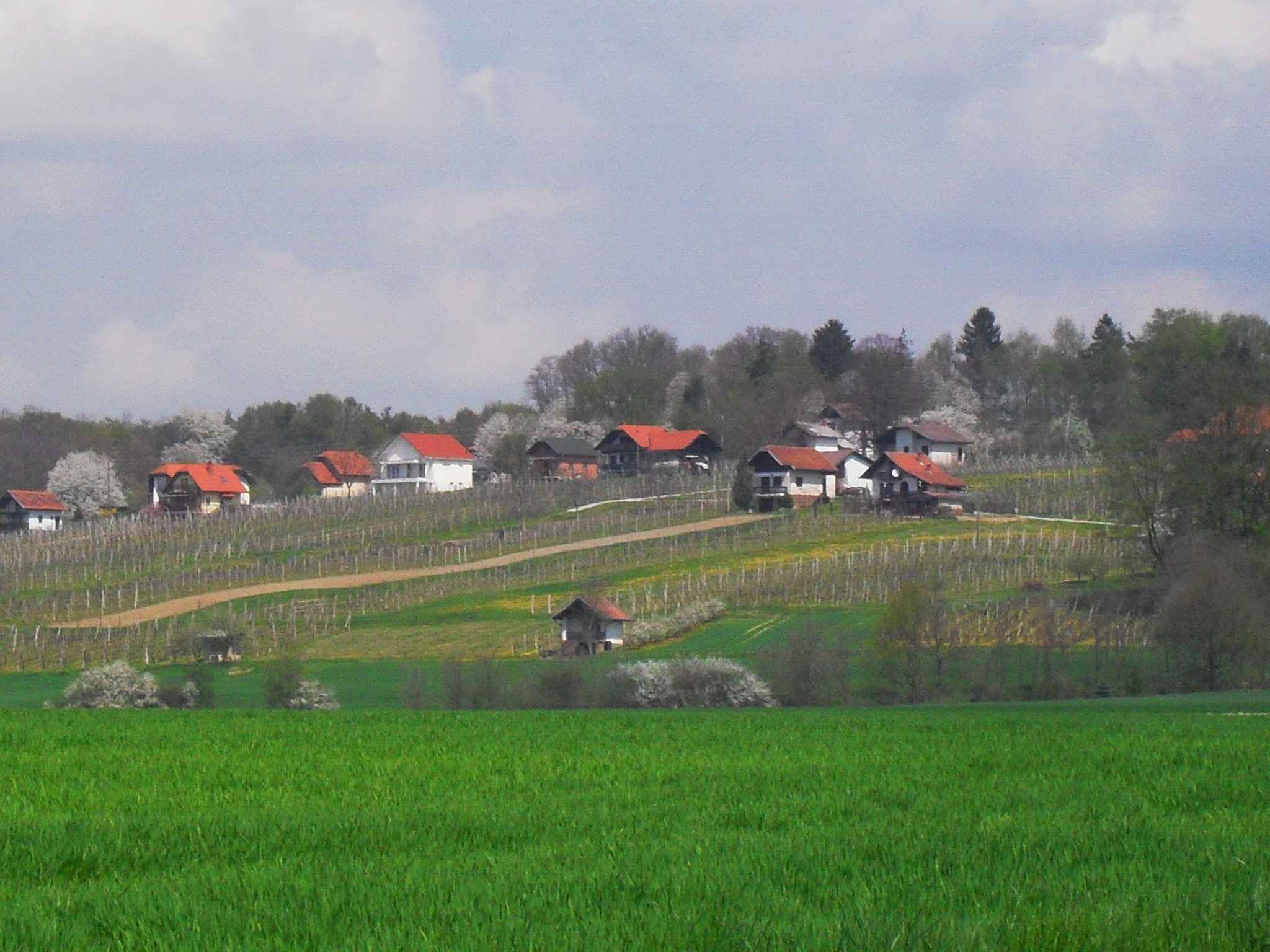 Suhi Vrh (prekmurian/prekmurščina: Süji Vrej) in Prekmurje